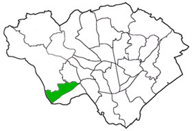 Map of Ely / Trelái electoral ward, Cardiff